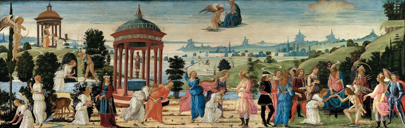 Jacopo del Sallaio (Florentine, 1441/42-1493), Panel with the Story of Cupid and Psyche, 1470s, Tempera on panel, Without frame, 23-¼ x 70", Private collection.